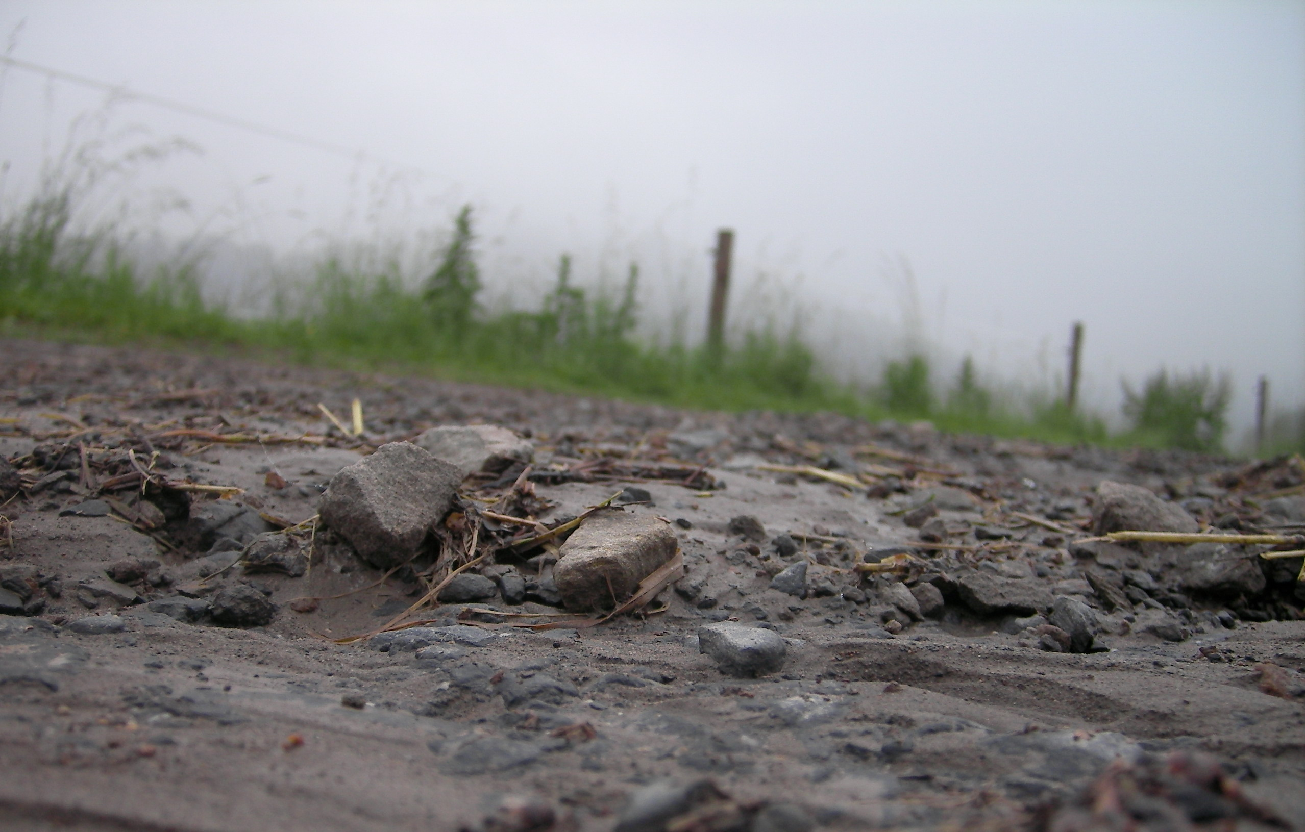 Slurries/schlamms are a mixture of fine coal dust, water (and optionally additives, flocculants